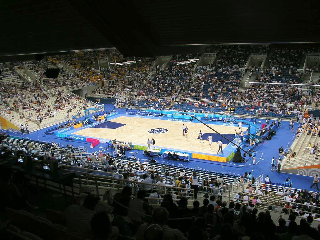 Interior of OAKA Olympic Indoor Hall, Athens